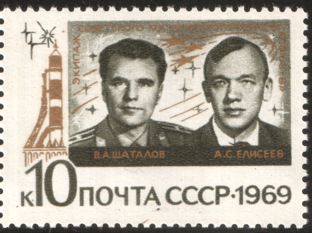 USSR stampː Vladimir Shatalov and Aleksei Yeliseyev (Soyuz 8). Seriesː Triple Space Flights the Space Ships Soyuz 6 (11-16.10), Soyuz 7 (12-17.10) and Soyuz 8 (13-18.10)